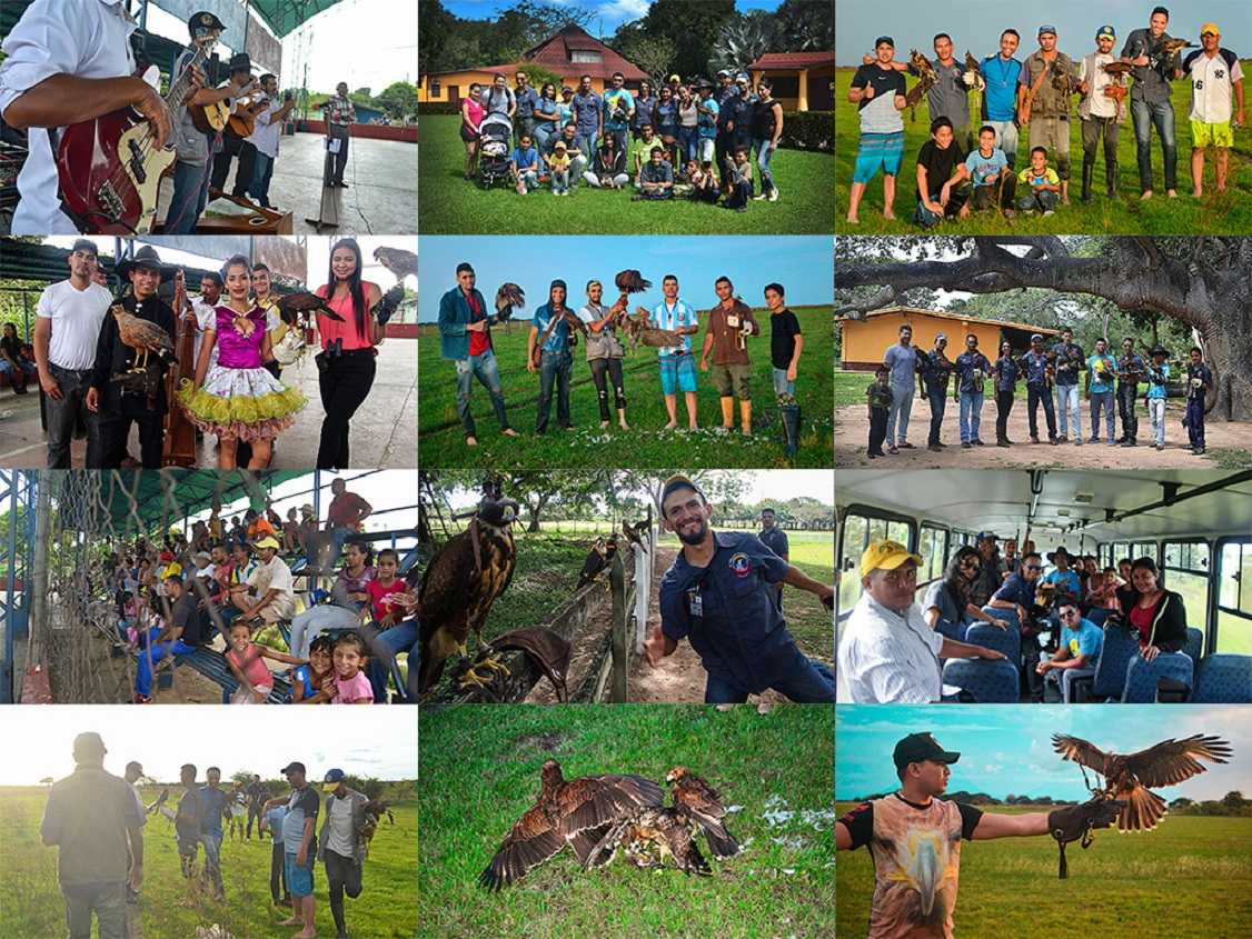 First national meeting falconers from Venezuela